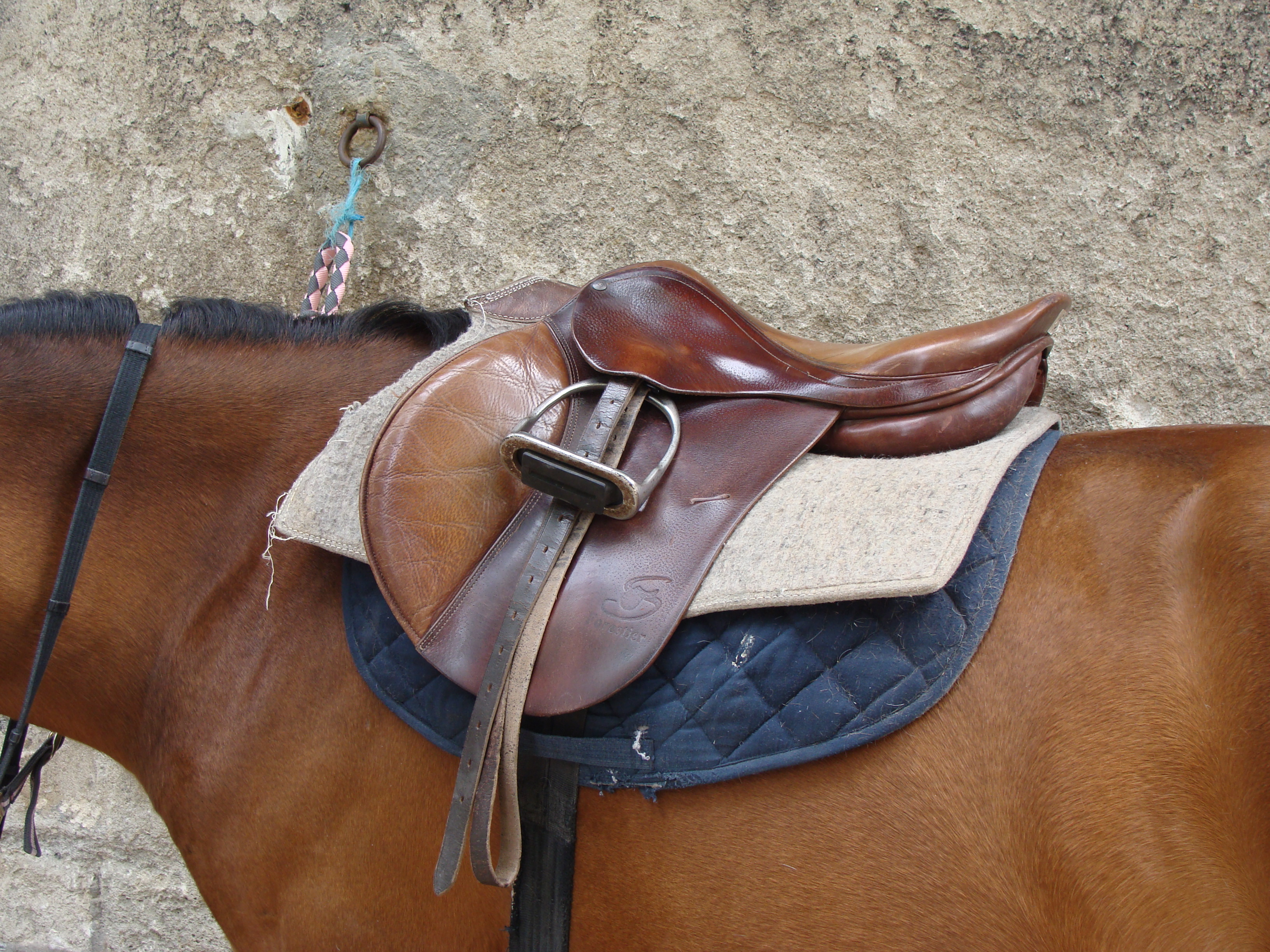 a saddle